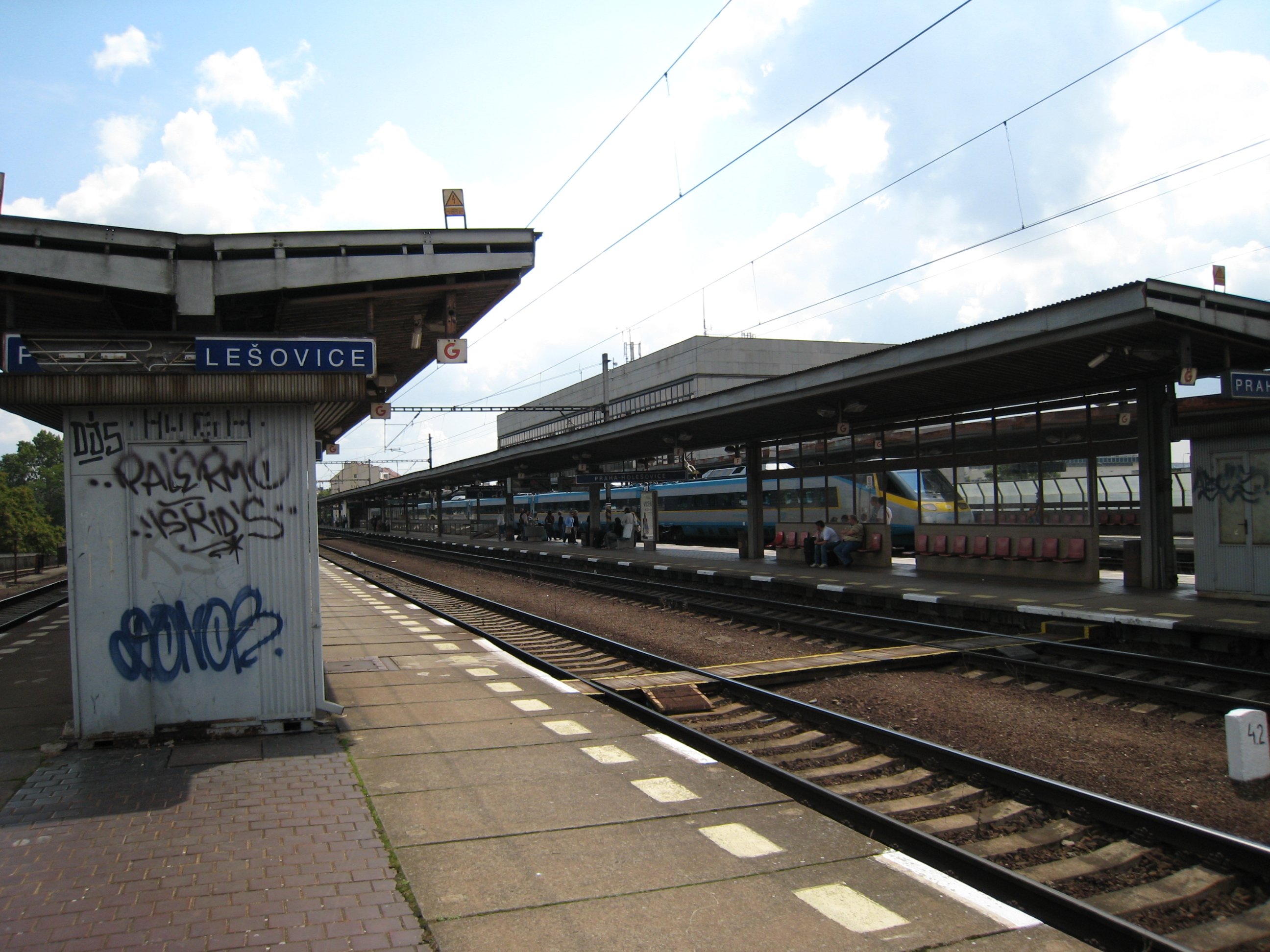 Railway Station Praha-Holešovice